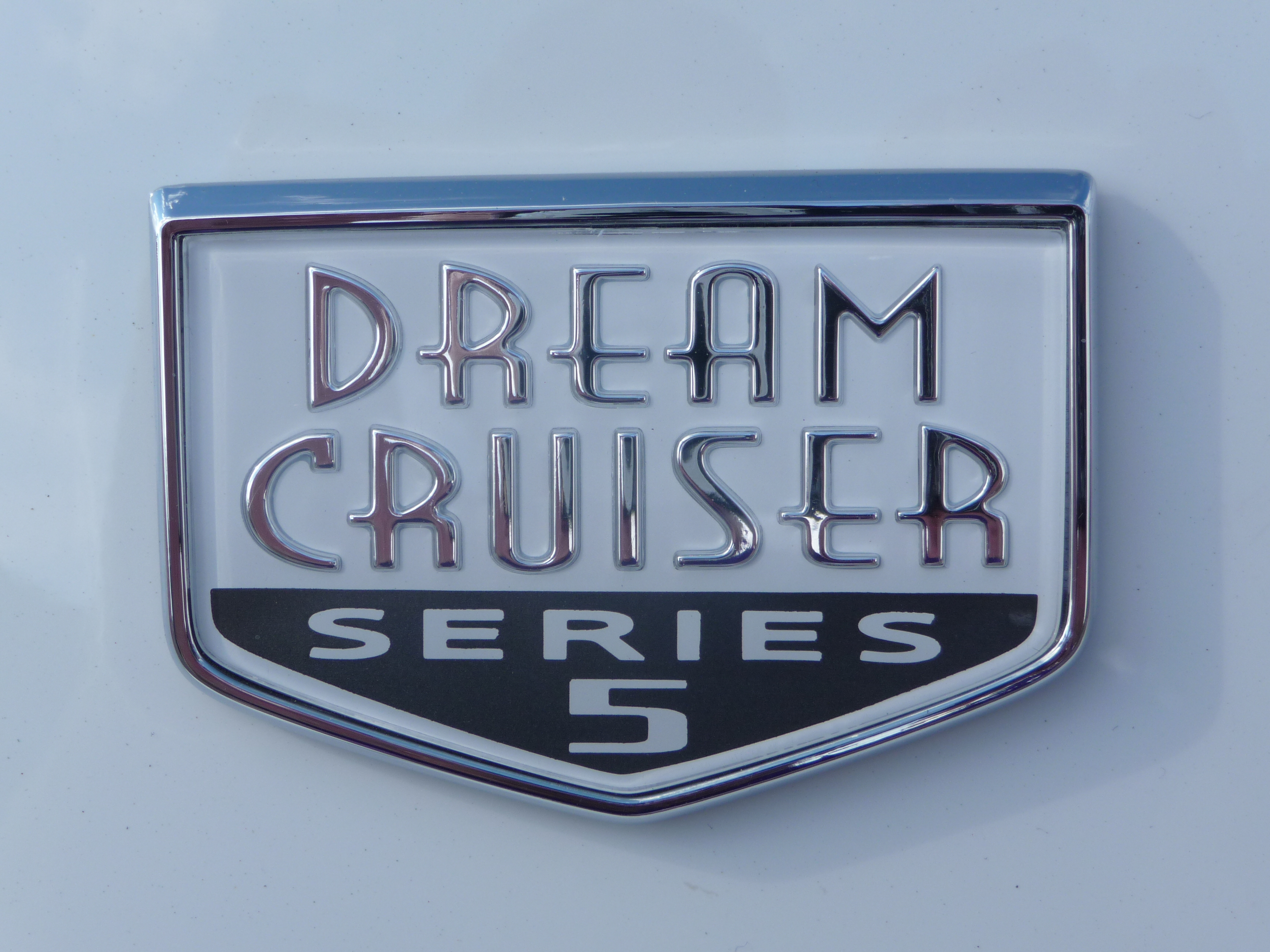 Badge on the rear decklid of a 2009 model year Chrysler PT Cruiser Dream Cruiser Series 5 on display at the 2008 Woodward Dream Cruise.